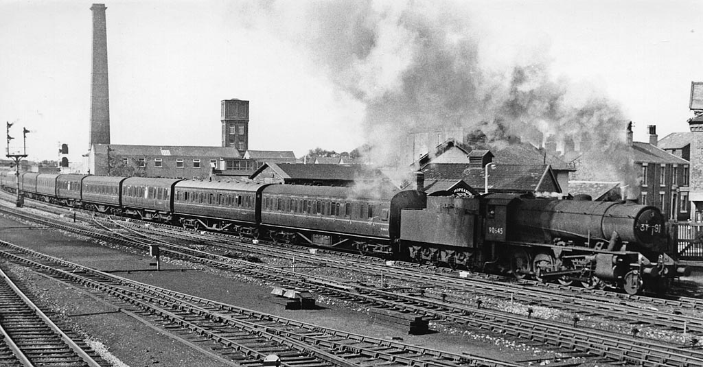 WD 2-8-0 on empty coach train at Kirkham & Wesham. View NW, towards Blackpool and Fleetwood, Kirkham & Wesham Station being to the right. (See SD4132 : Special 'Illuminations' Express to Blackpool, at Kirkham & Wesham Station for details). The use of an ex-War Department 2-8-0 (No. 90645) on such a working was due to the very heavy Blackpool Illuminations traffic - note the Reporting Number chalked on the smokebox.